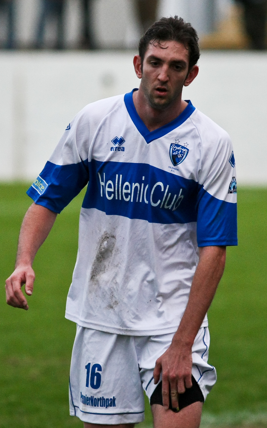 Jordan Simpson playing for Sydney Olympic against the Sydney Tigers in Round 13 of the 2009 New South Wales Premier League.